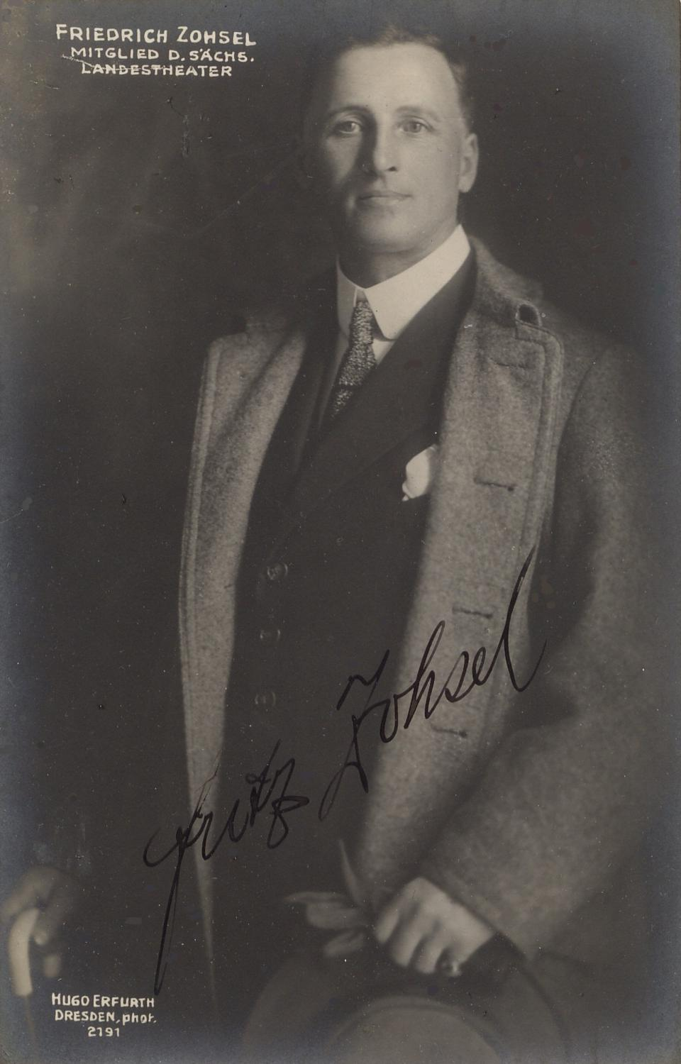 Portrait of German opera singer Fritz Zohsel by Hugo Erfurth, c. 1910